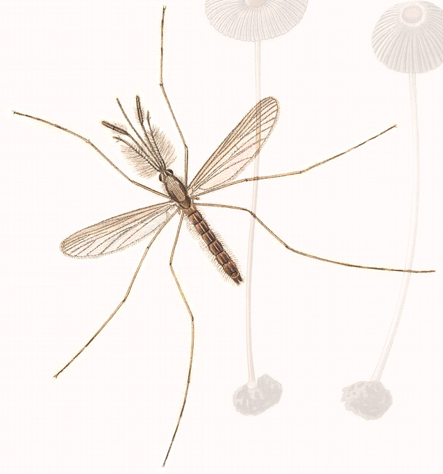 Male adult of Anopheles claviger